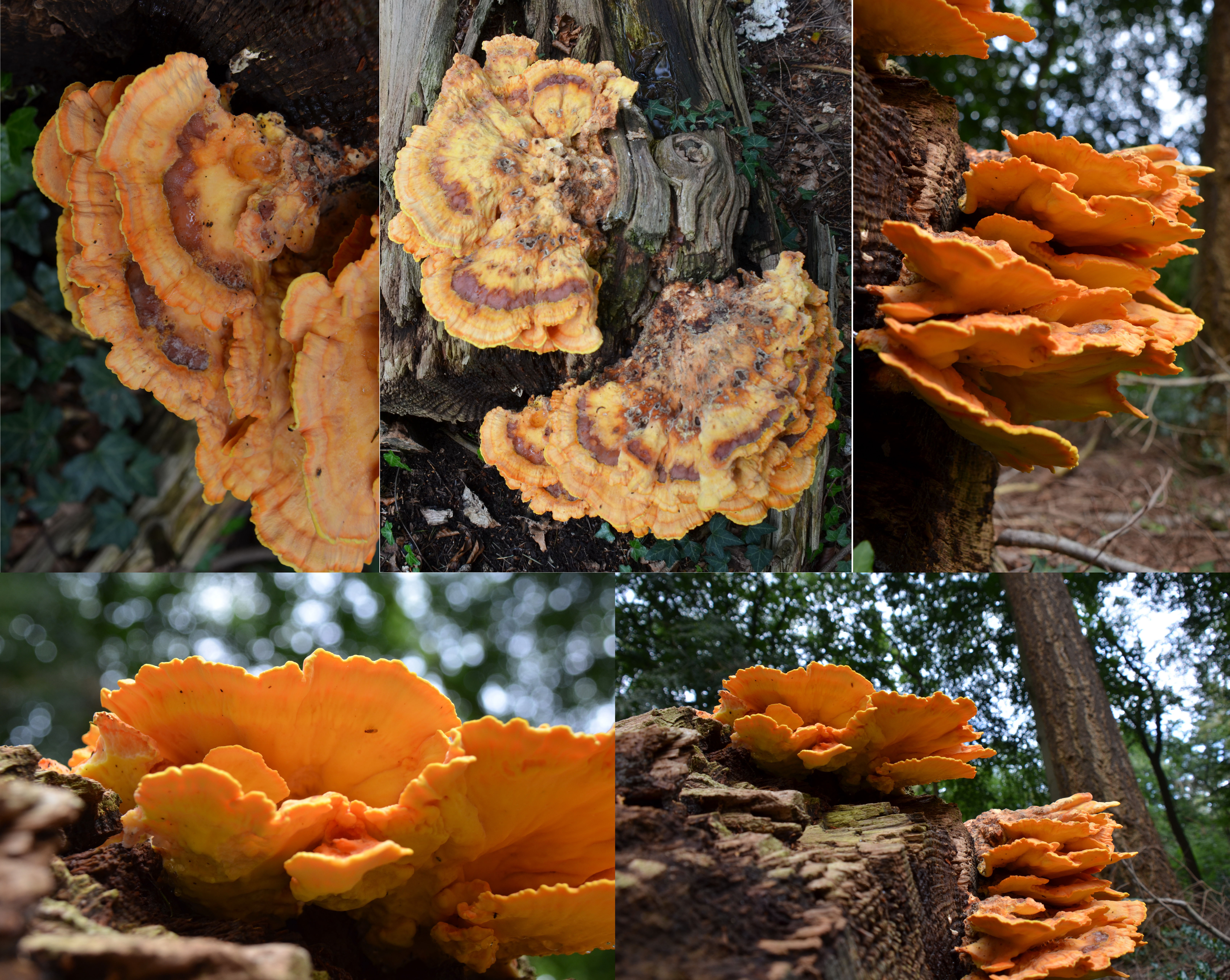 Yellow/orange coloured Laetiporus sulphureus (Chicken of the Woods or Sulphur shelf, D= Schwefelporling, F= Polypore soufré, NL= Zwavelzwam) white spores and causes brown rot, at these old trunk at Schaarsbergen forest